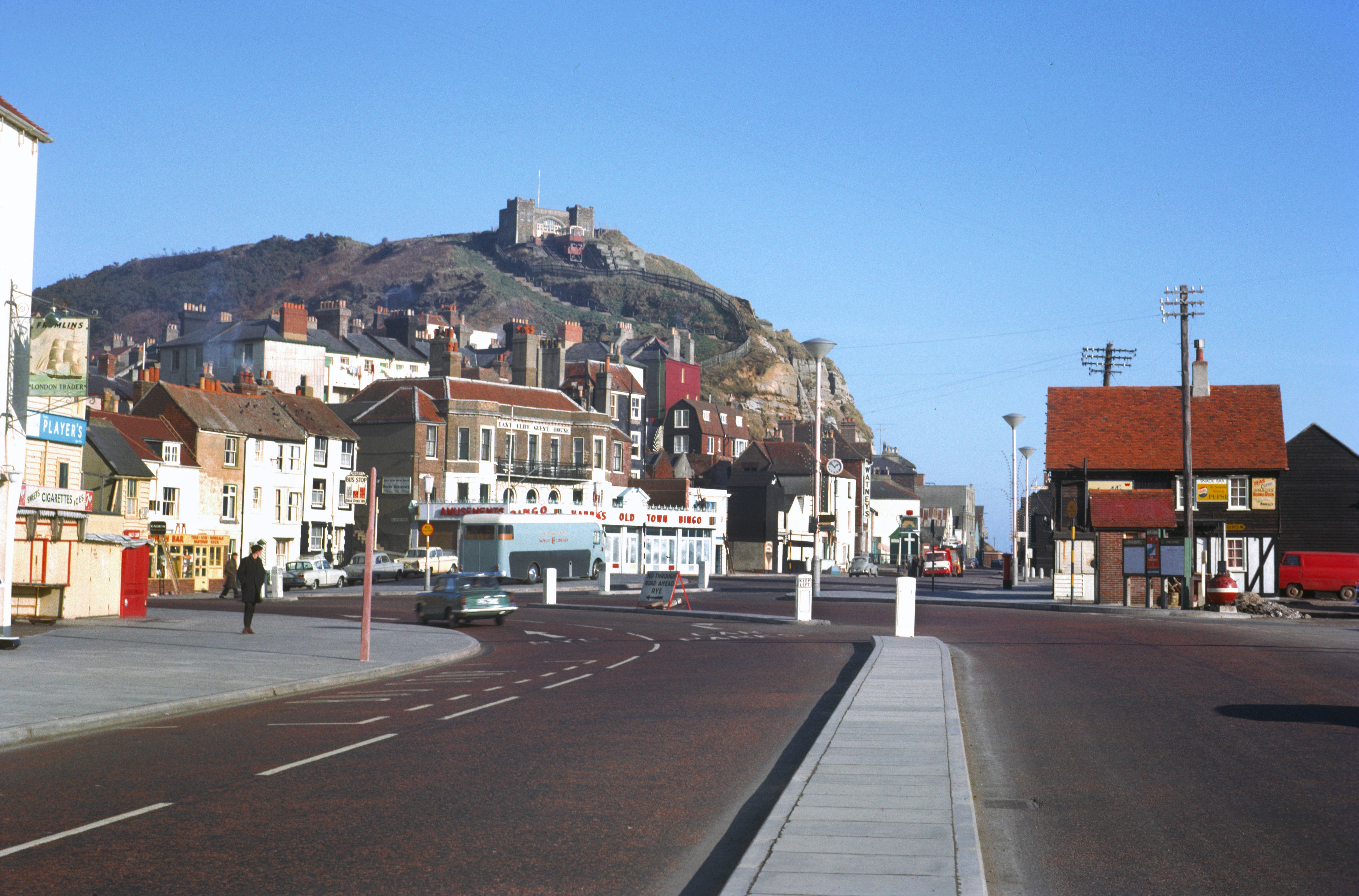 Hastings East Cliff July 1965.